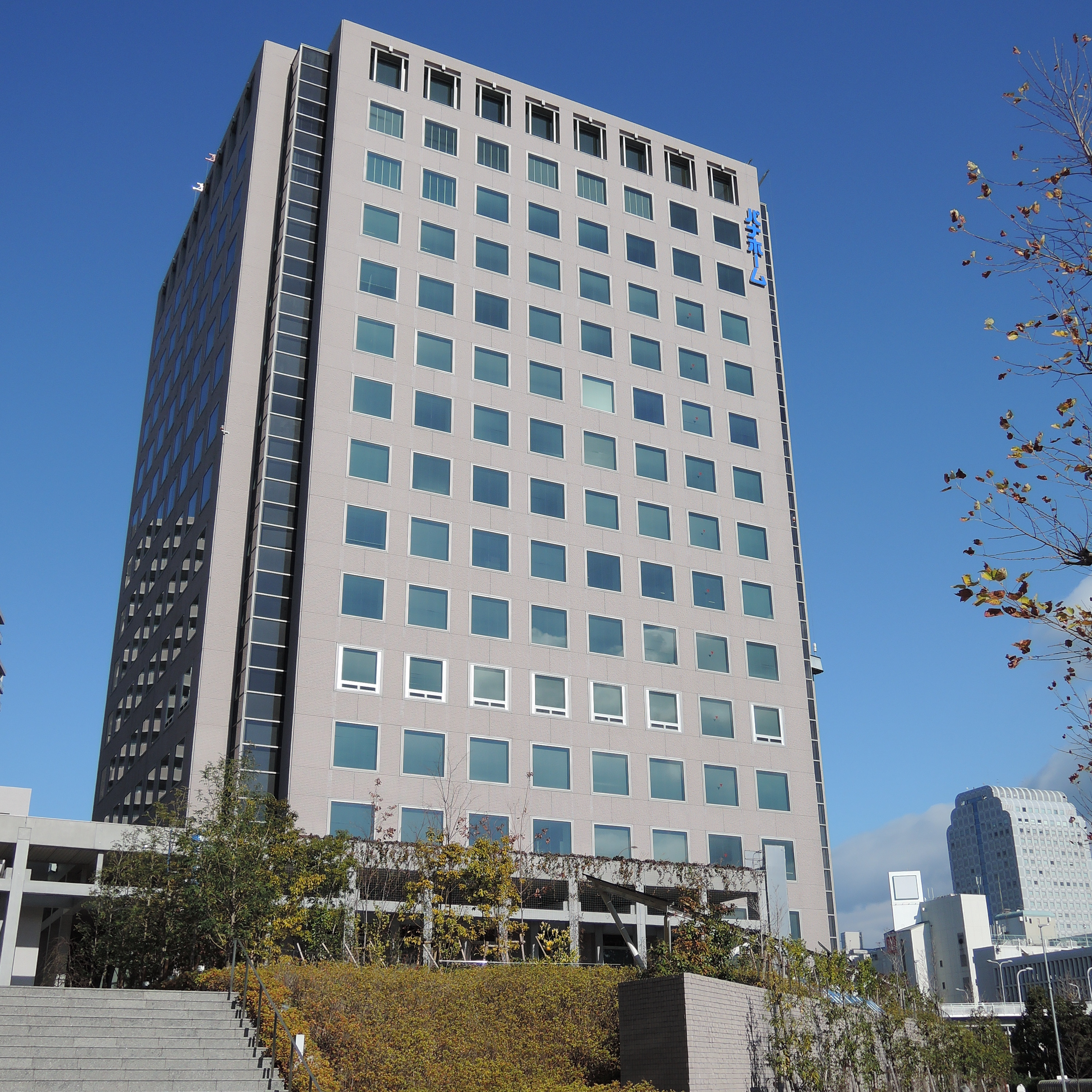 Headquarters of PanaHome Corporation,Osaka prefecture,Japan